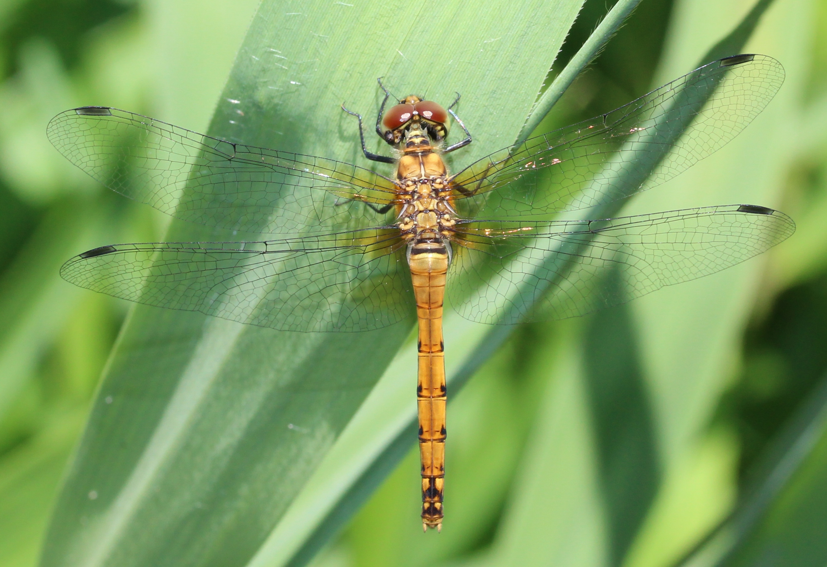 Sympetrum darwinianum, female, in Mie pref., Japan.